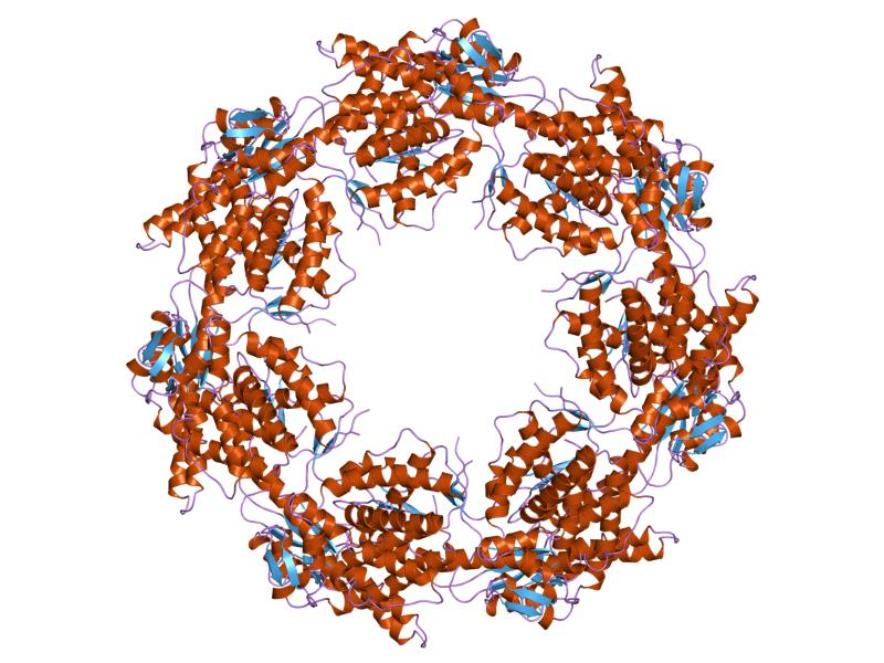 Cartoon representation of the molecular structure of protein registered with 1grl code.